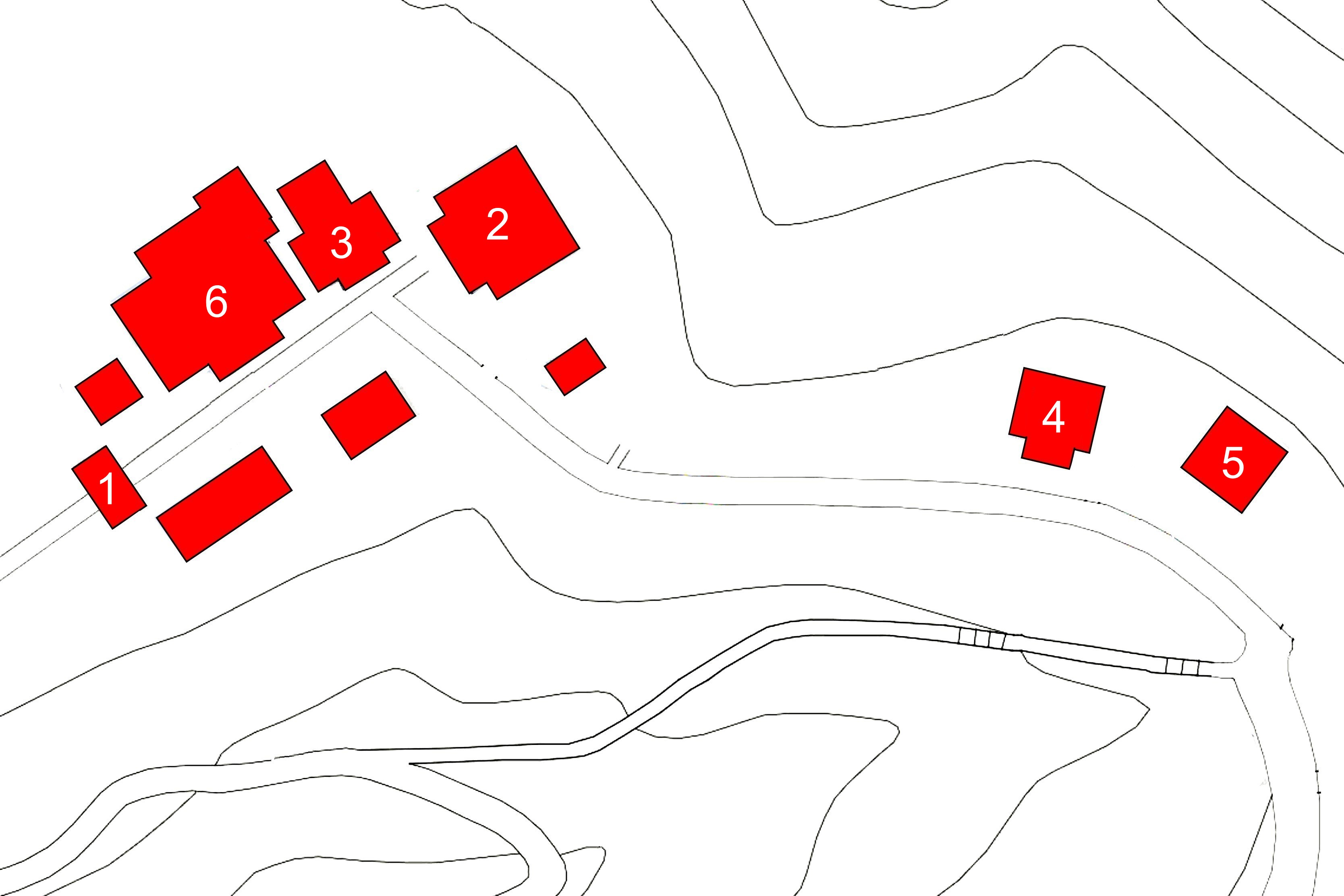 Layout of Yakuri-ji, Kagawa Prefecture